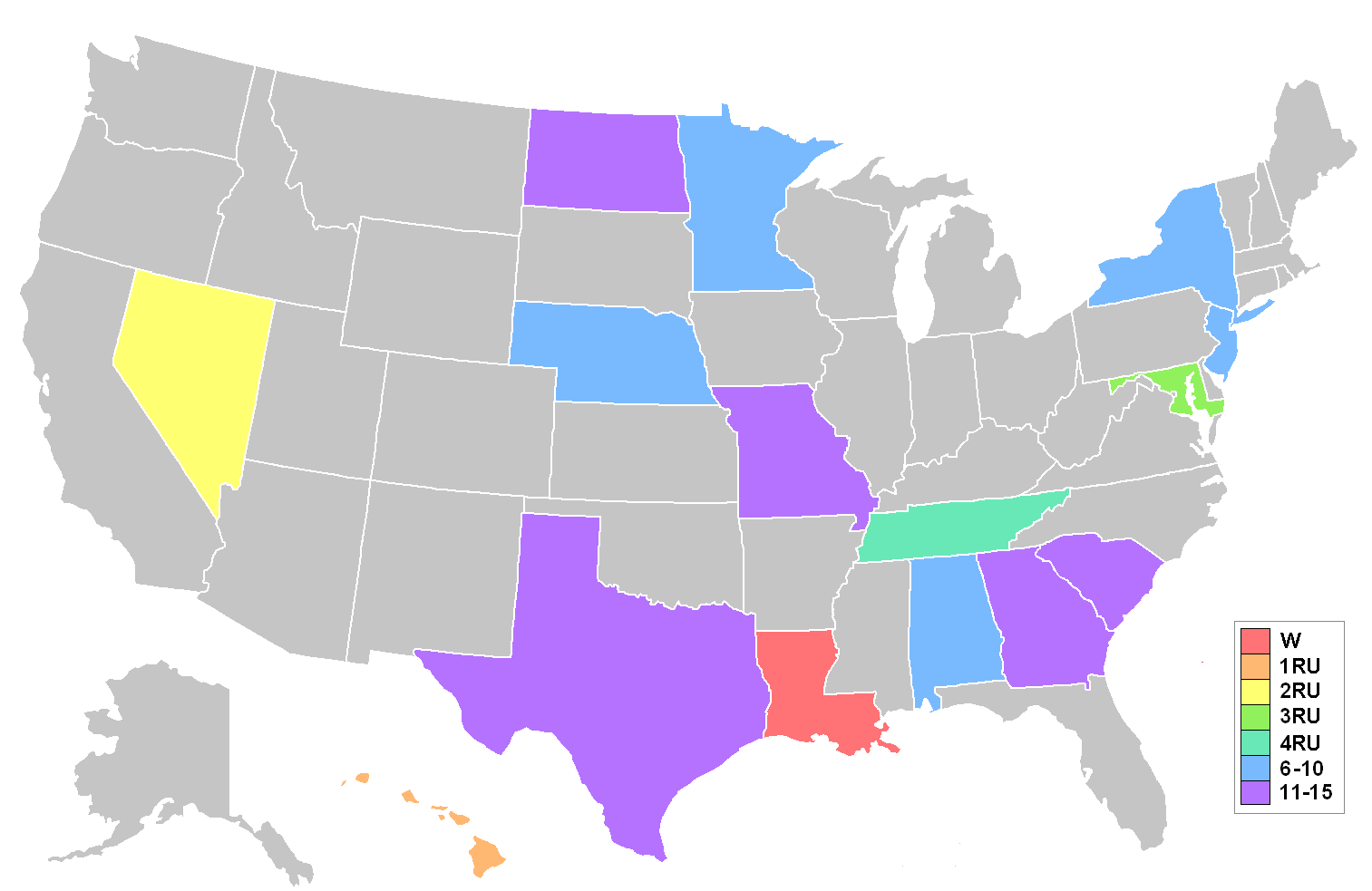 Map showing placements at the Miss Teen USA 2004 pageant. Key on graphic shows colour coding for break down of placements.